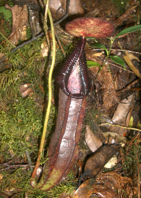 Nepenthes singalana from Mount Belirang